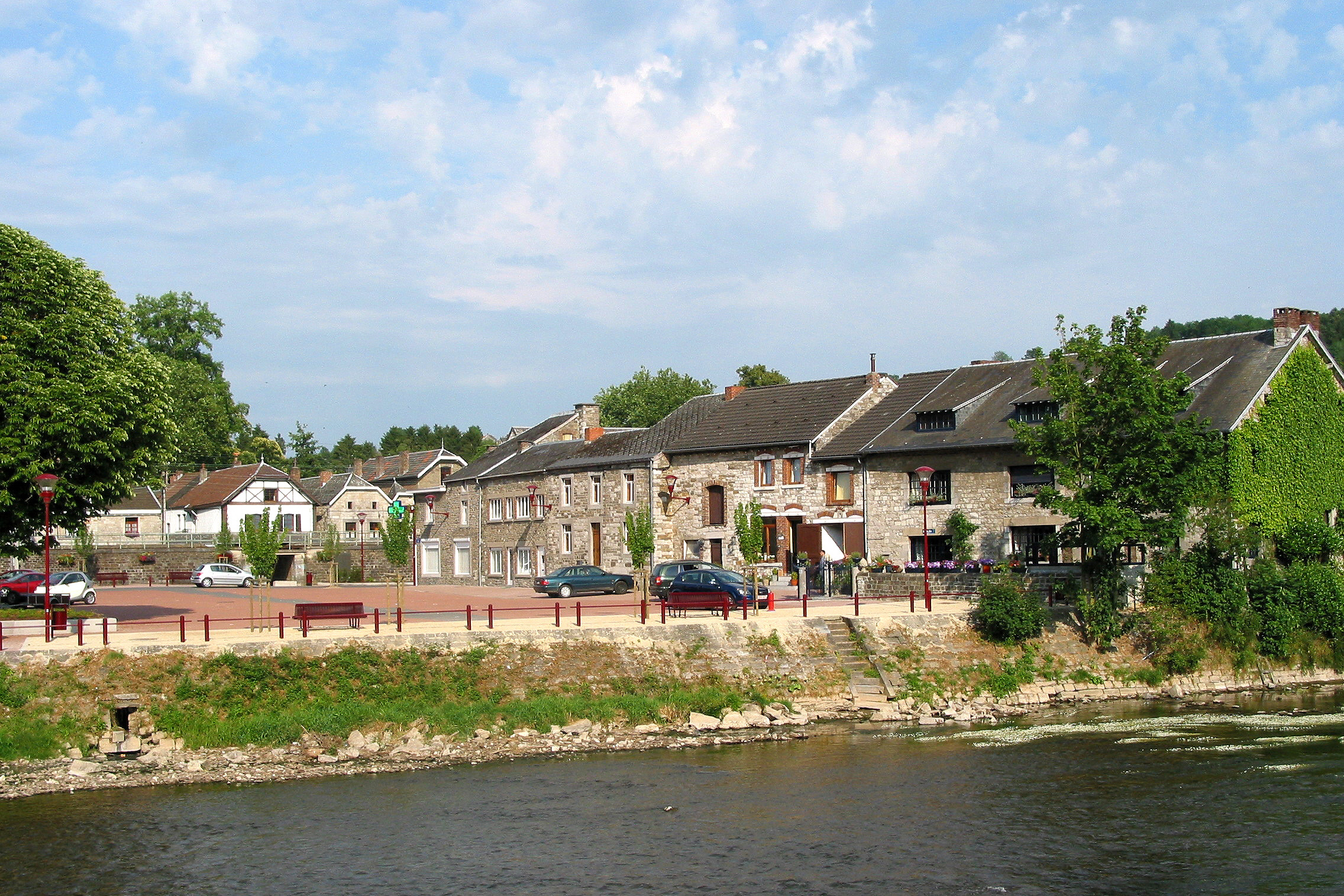 Comblain-la-Tour (Belgium), neighbourhood alongside the Ourthe river.